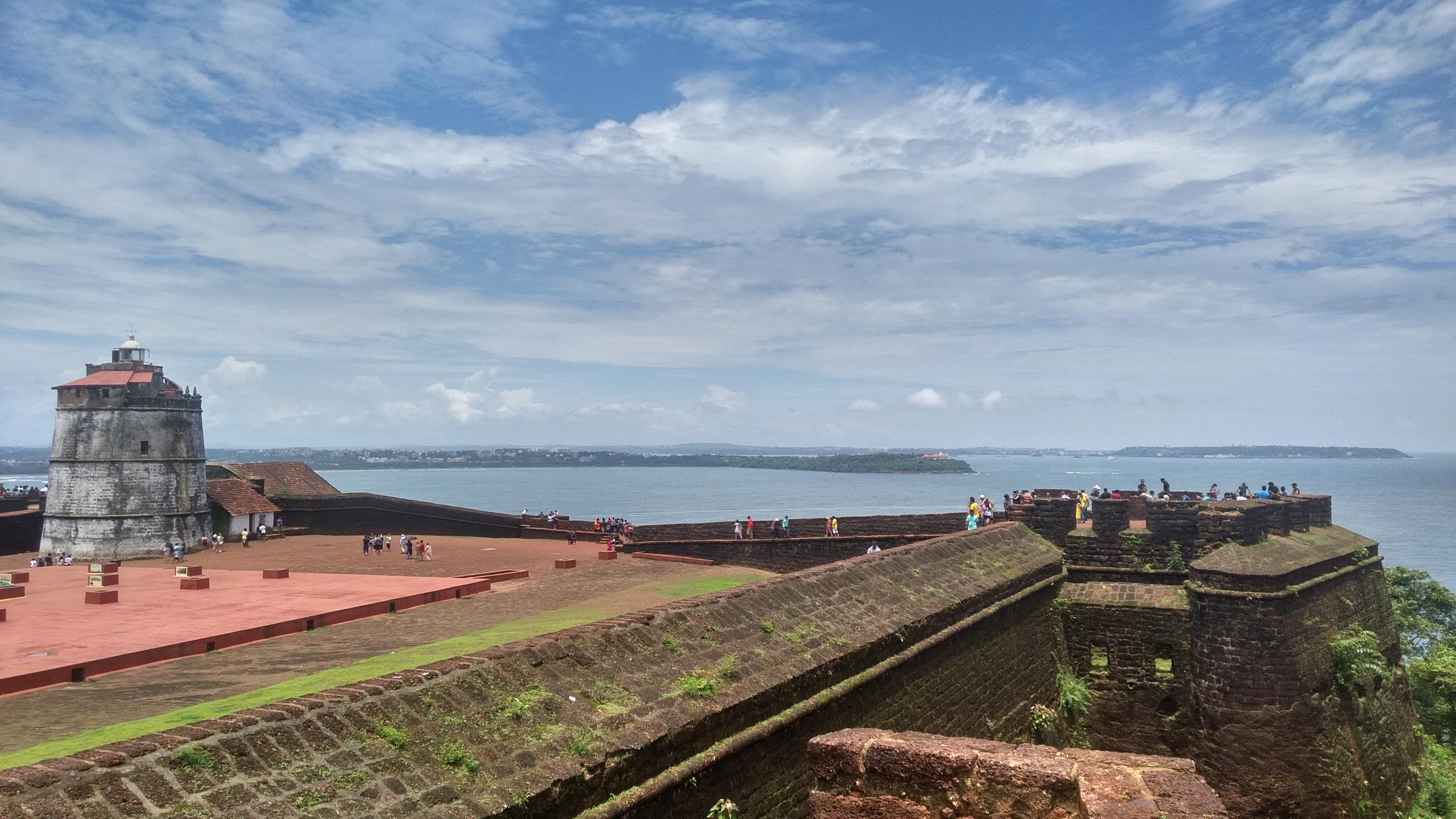 AGUADO FORT (UPPER) CONDOLIM GOA N-GA-11